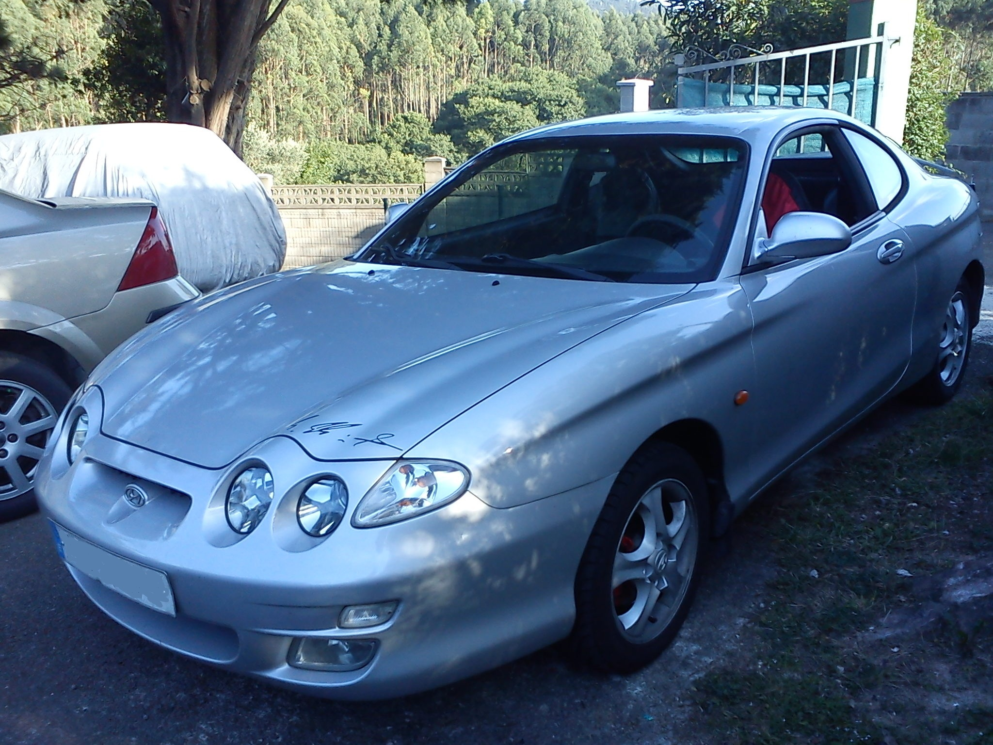 Hyundai Tiburon Turbulence